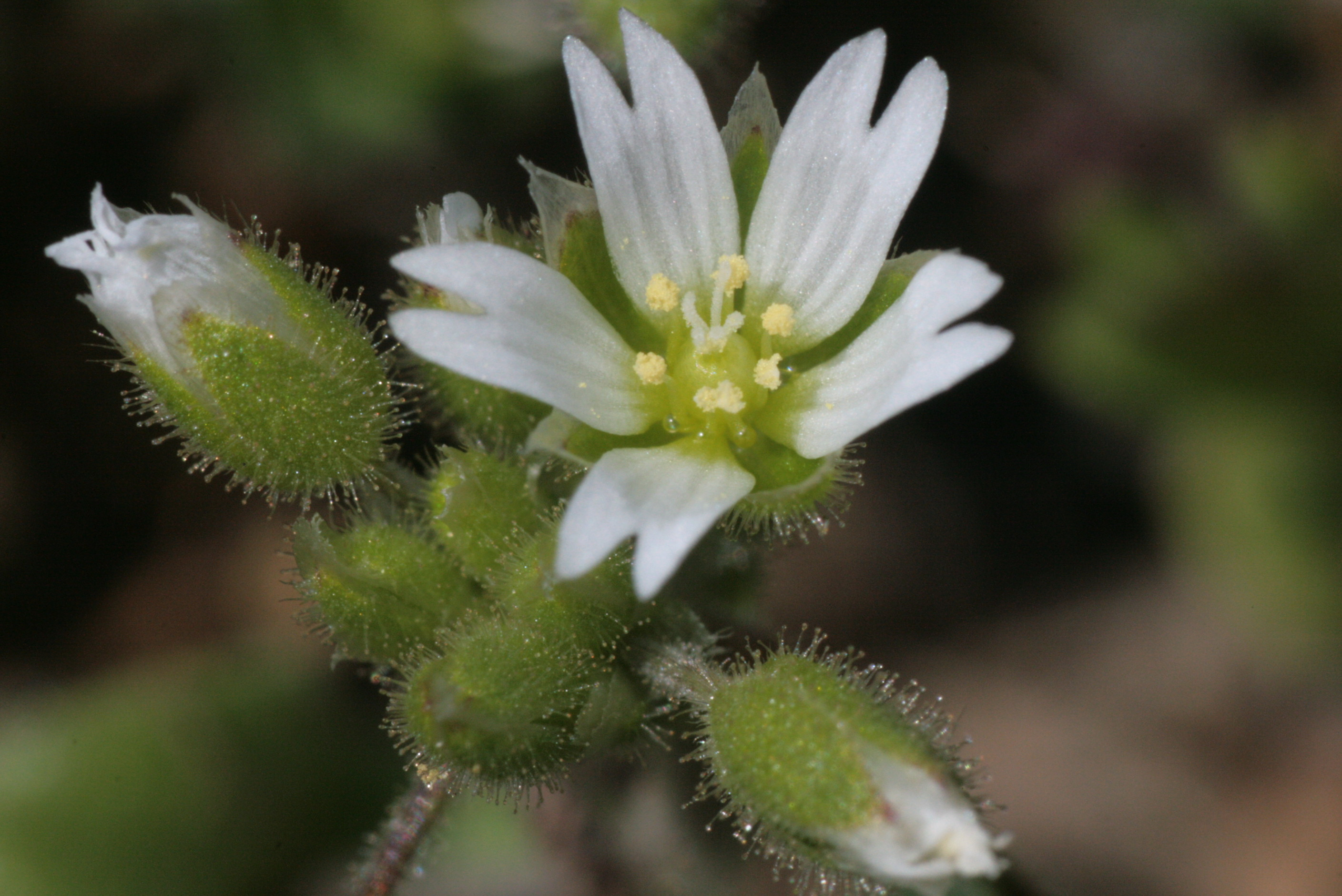 Cerastium semidecandrum